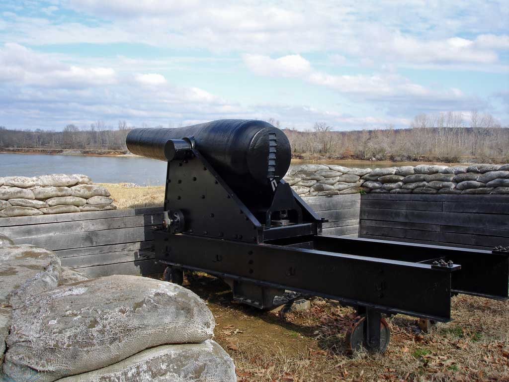 Columbiad at Fort Donelson, TN, photographed by Hal Jespersen, February 2006.